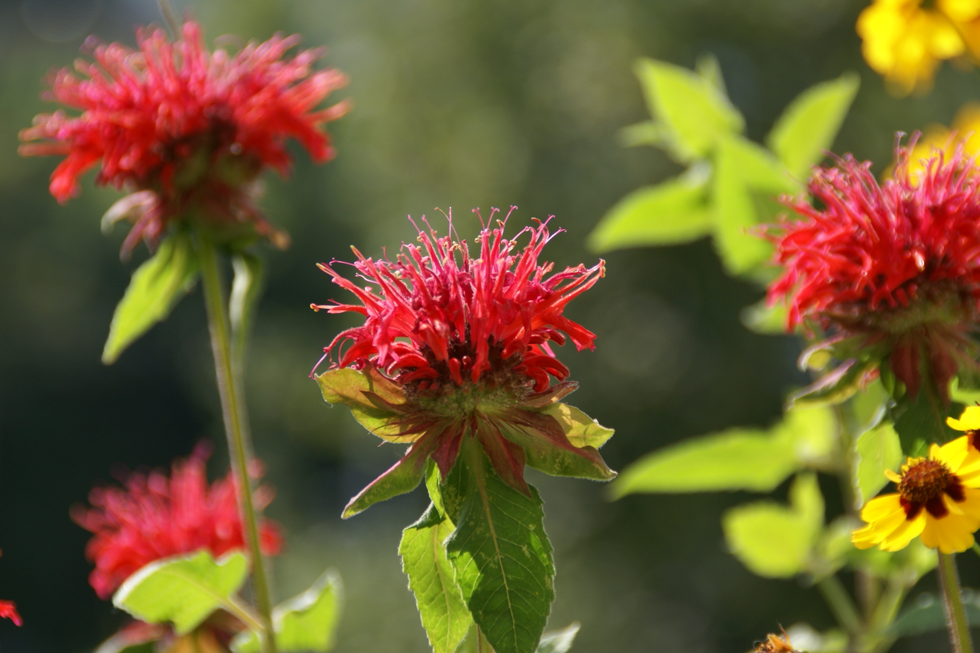 Monarda didyma at a balcony in Heidelberg, Germany